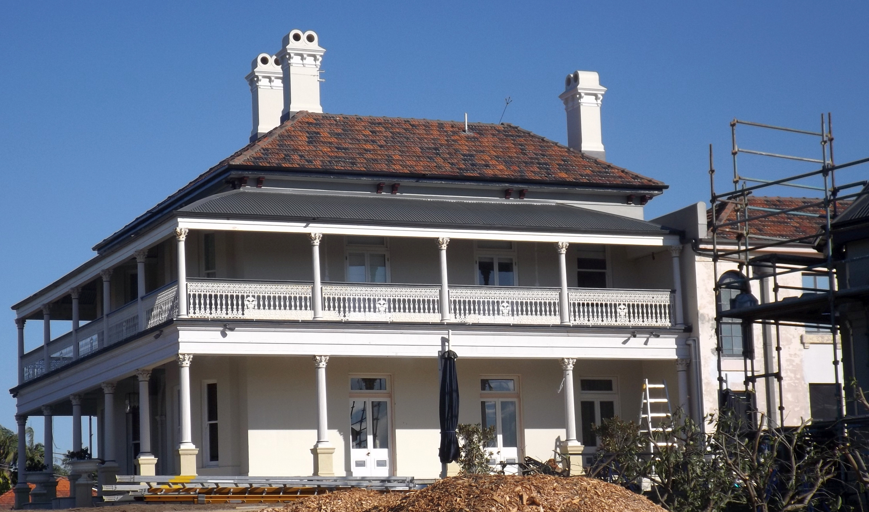 Photo of Glen Lyon residence at Ashgrove, Brisbane, Queensland, Australia.